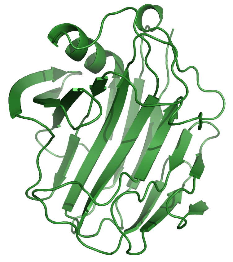 Secondary/tertiary structure ribbon diagram of the Streptomyces lividans beta-1,4-endoglucanase catalytic domain (PDB 1NLR) rendered using PyMol (DeLano Scientific)